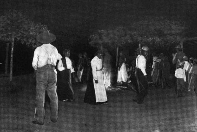 Members of the Yuchi tribe participating in the Big Turtle Dance.